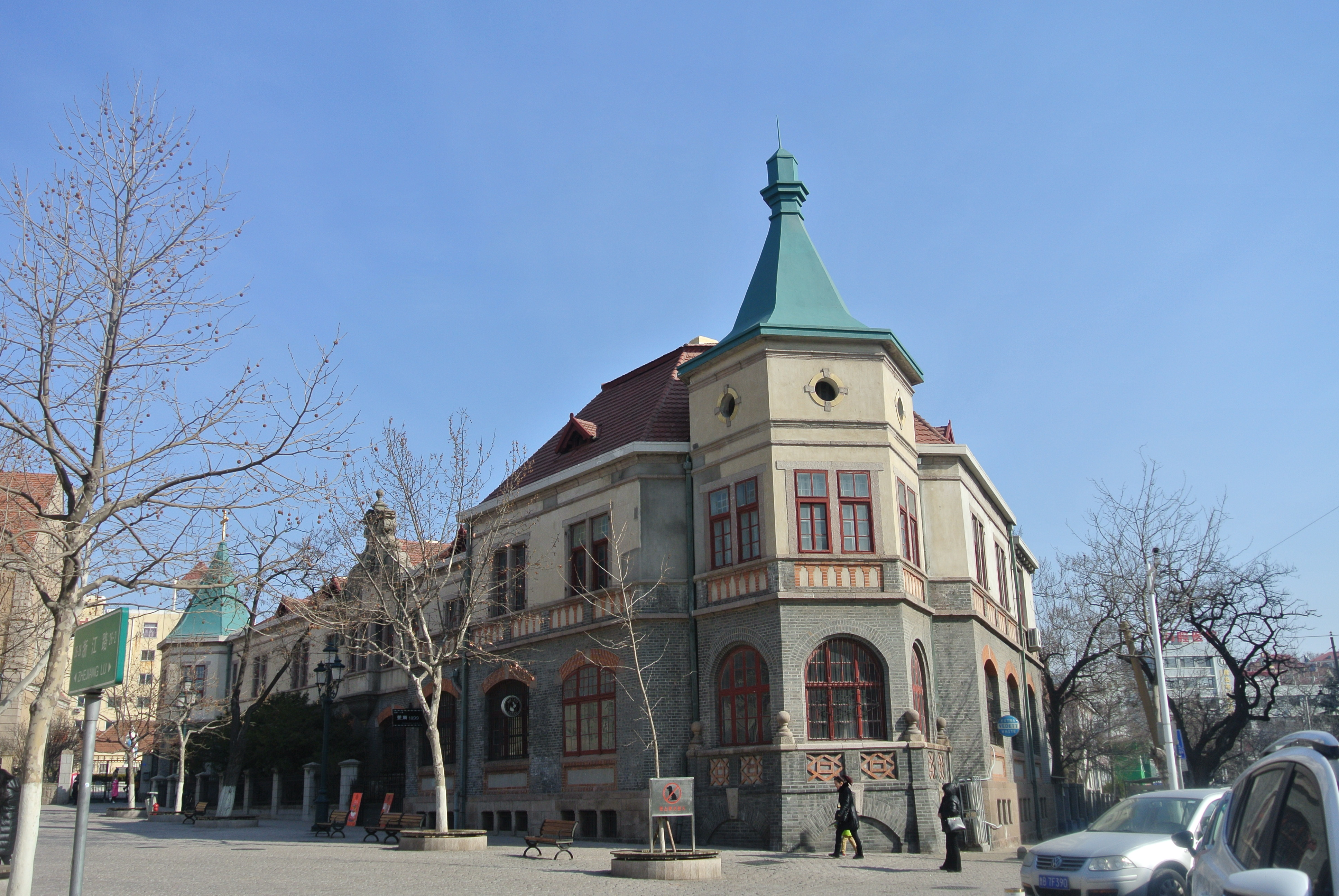 Former SVD Mission in Tsingtao/Qingdao